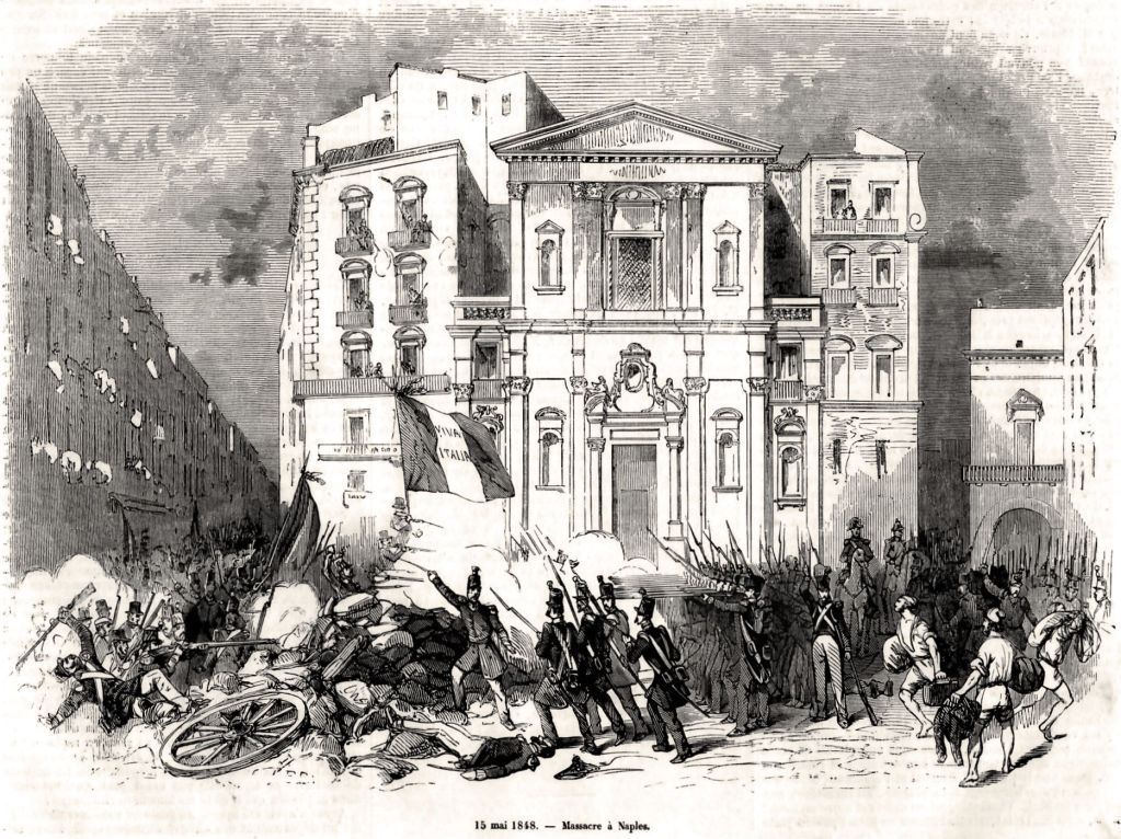 Neaples repression of 1848 patriotic revolution